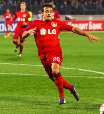 Giulio Donati